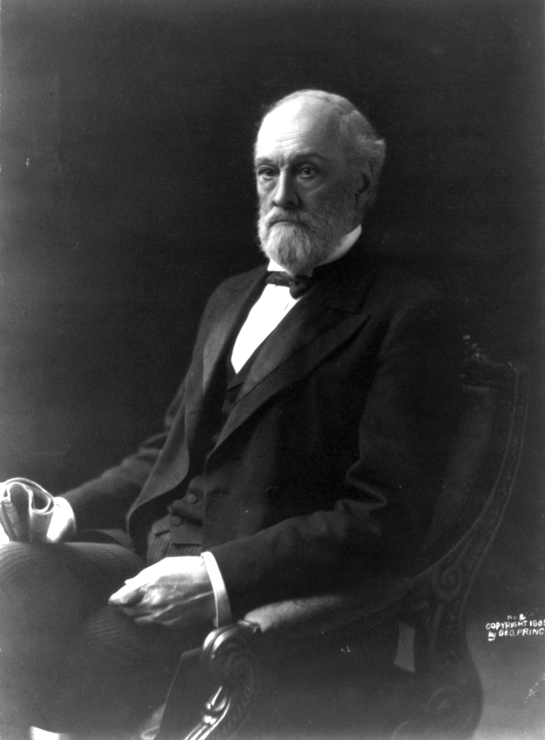 Orville H. Platt, seated, facing left